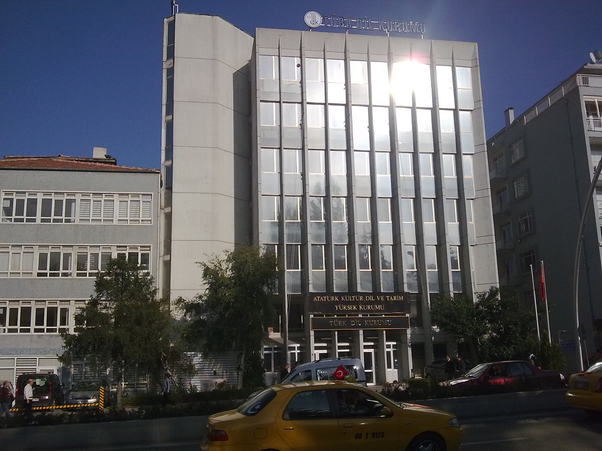 Turkish Language Association building, Atatürk Avenue, AnkaraTürkçe: Türk Dil Kurumu binası, Atatürk Bulvarı, Ankara